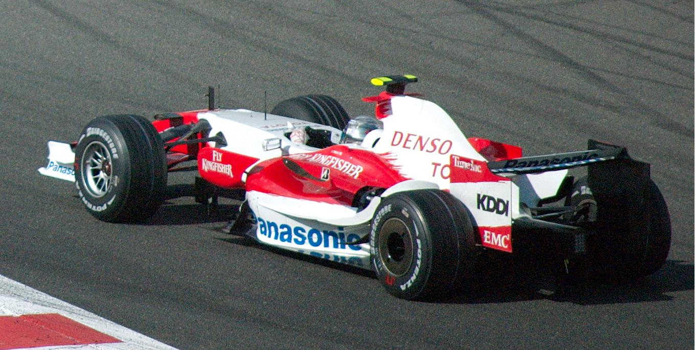 Jarno Trulli driving for Toyota at the 2007 Belgian Grand Prix.